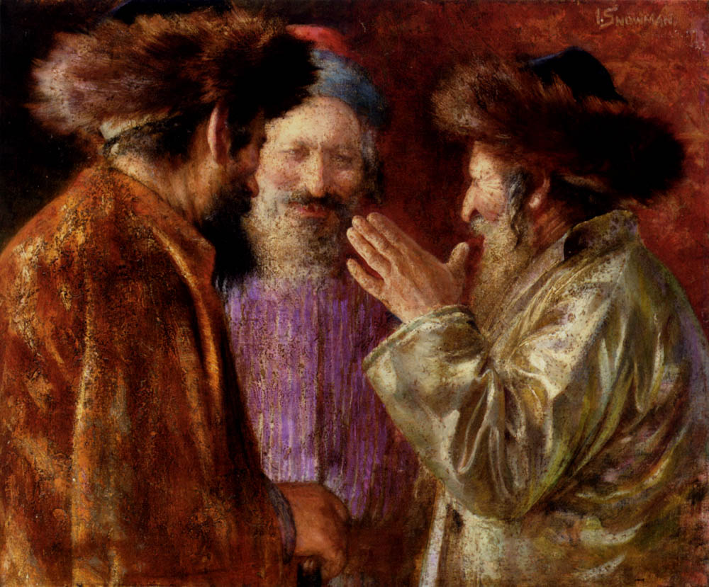 The Water Carrier by Isaac Snowman (1874–1947)